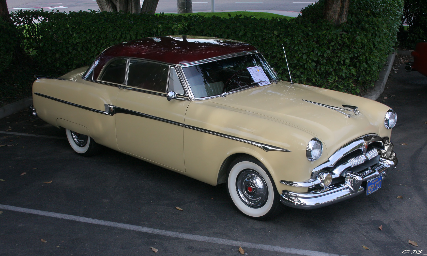 Packard Club at the Double Tree Hotel, Orange, CA, Jan 29, 2010